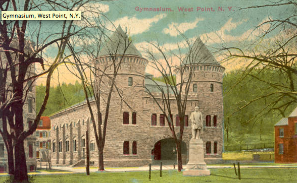 The original gymnasium at West Point and one of the earlier locations of Thayer Monument